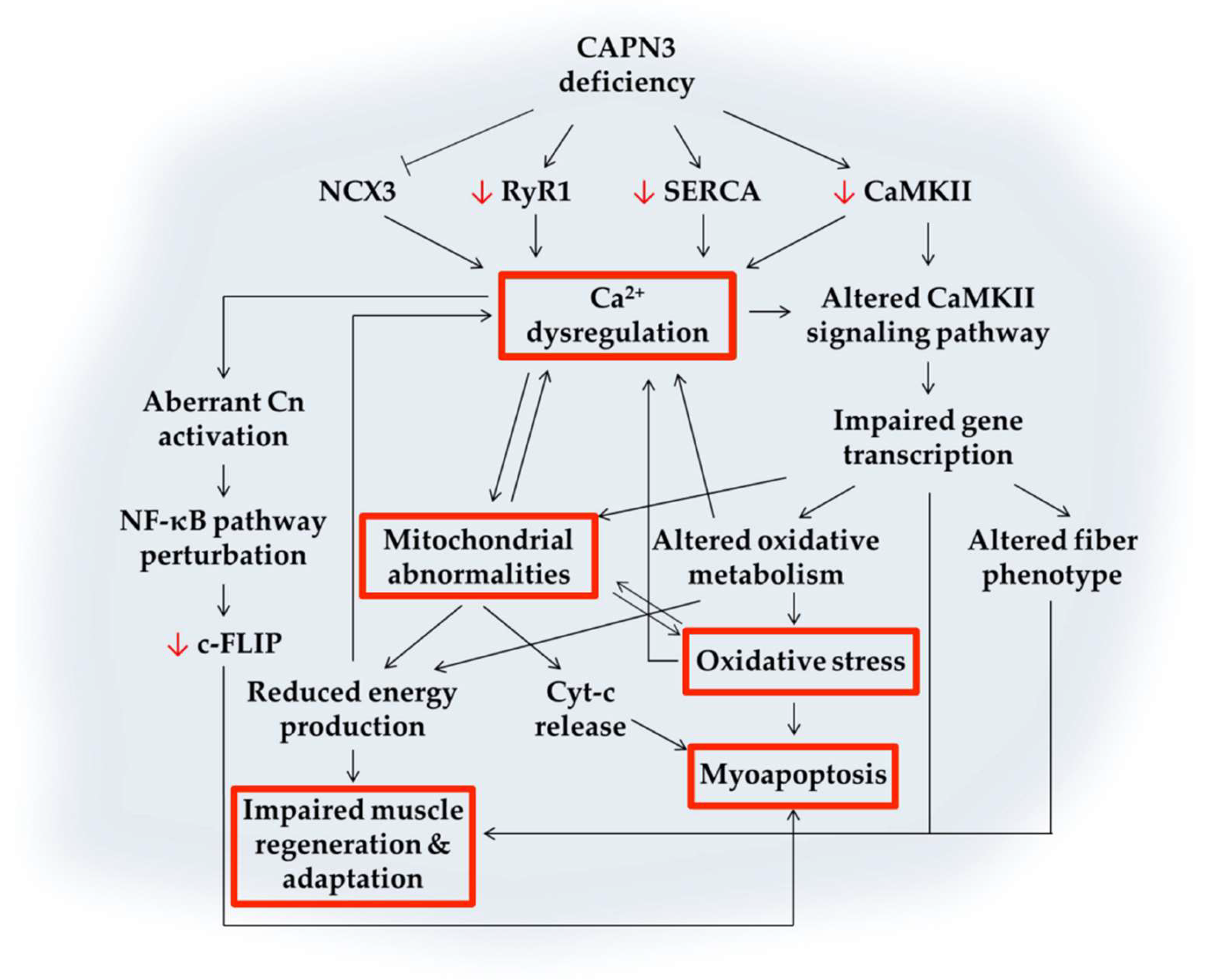 Map showing the proteins involved in calcium dysregulation, and the downstream affects.